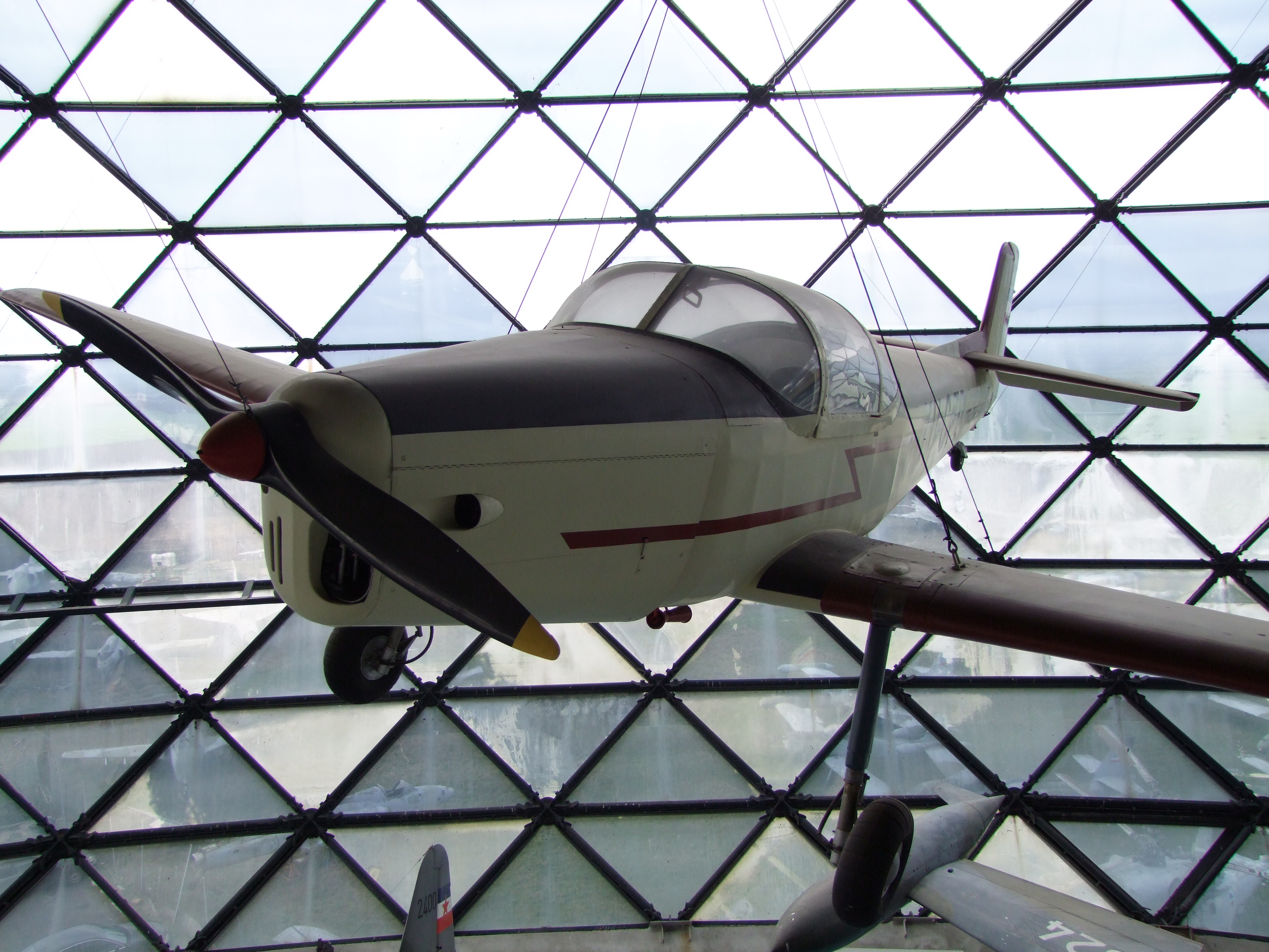 Letov KB-6 Matajur